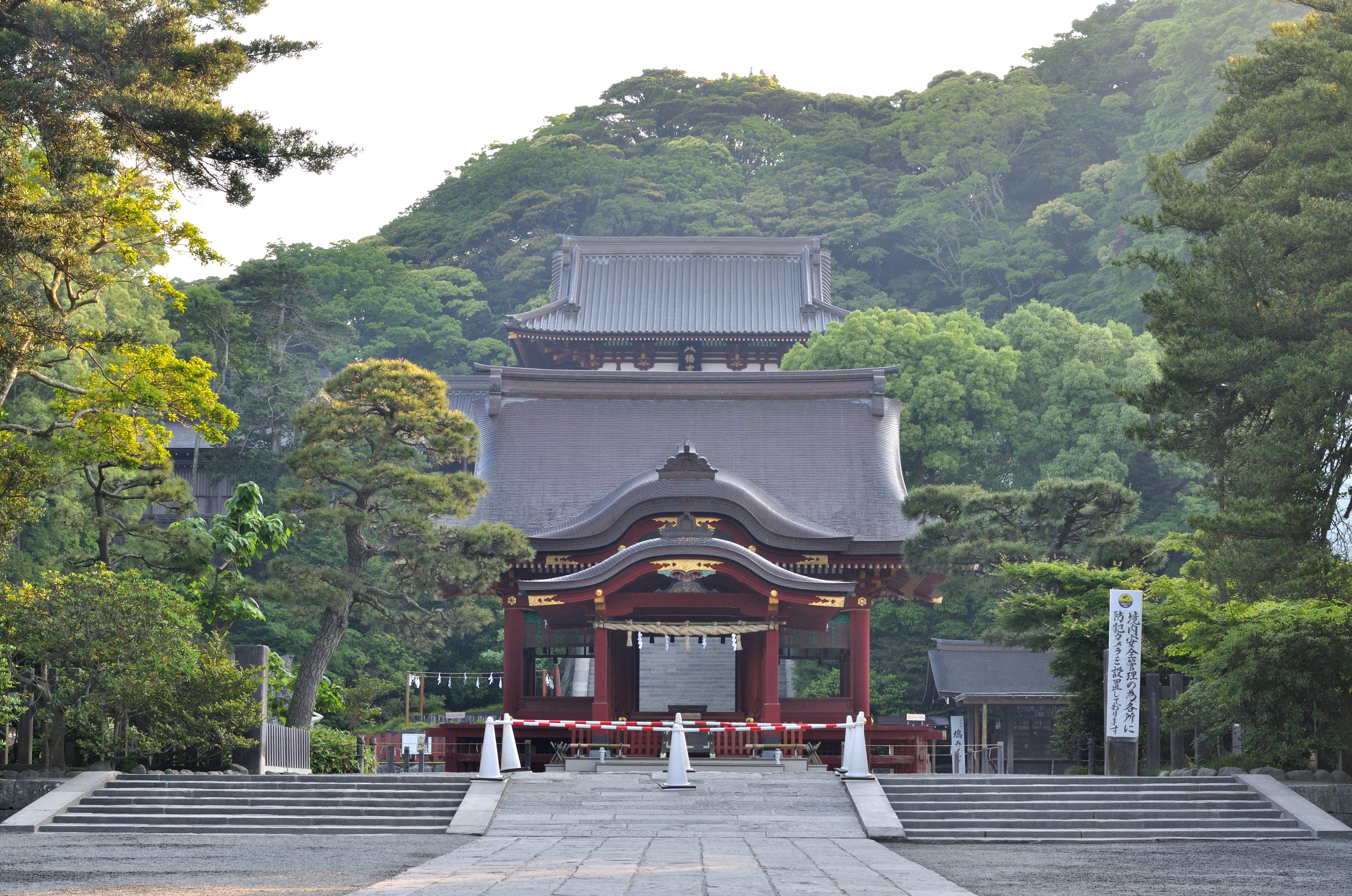 Tsurugaoka Hachiman Shrine in Kamakura, Japan